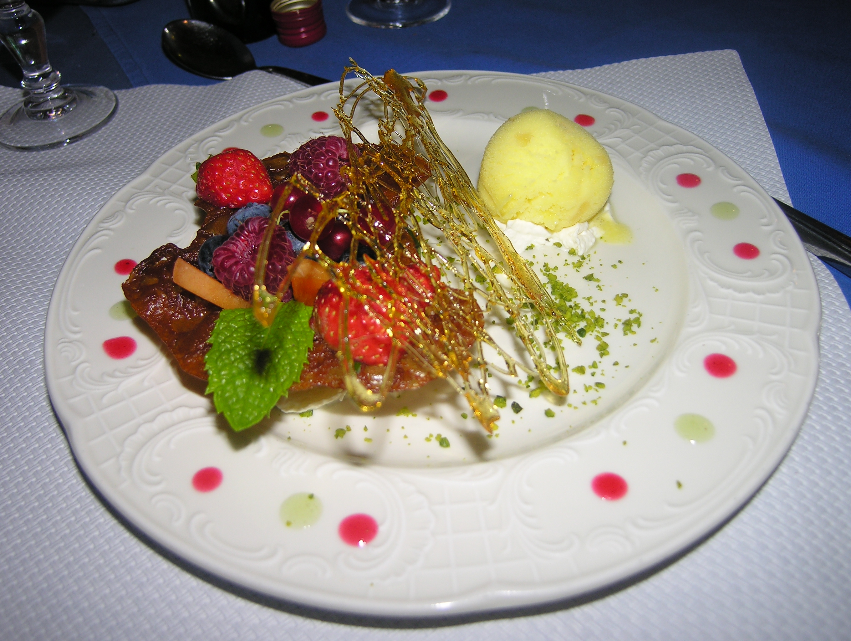 Dessert, as served in the Swiss mountain restaurant as Schynige Platte